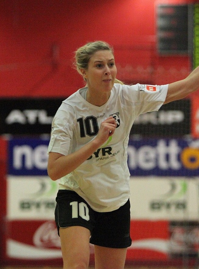 Hildur Þorgeirsdóttir (10) with FH against Haukar on January 24, 2009.